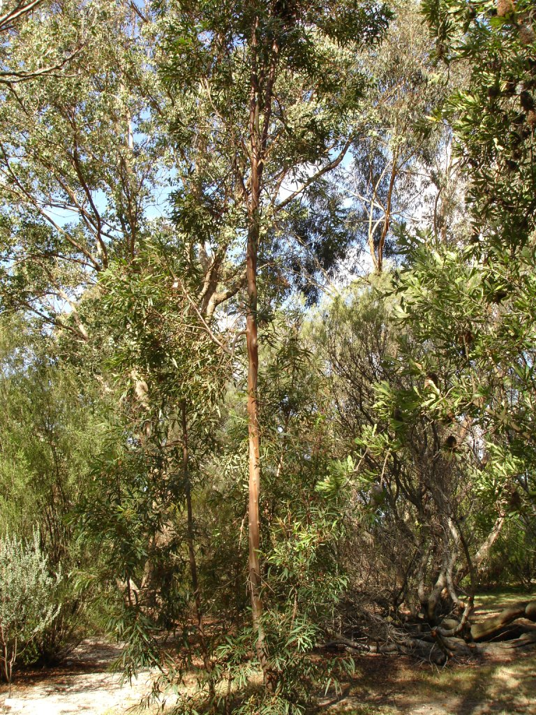 Photographed at Maranoa Gardens, Melbourne, Victoria, Australia HelloMojo 08:08, 6 April 2007 (UTC)